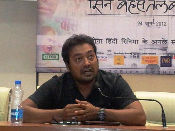 Anurag Kashyap sharing his views on Cine Bahastalab-2012